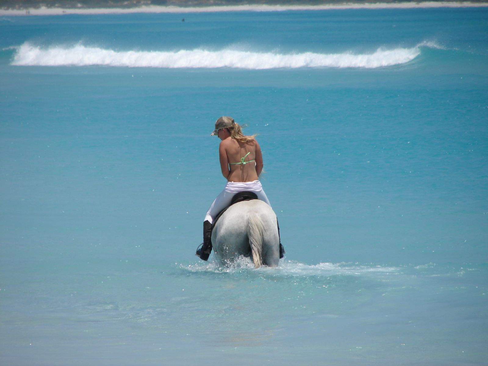 Amazon at sea - Noordhoek Beach, Cape Town, South Africa